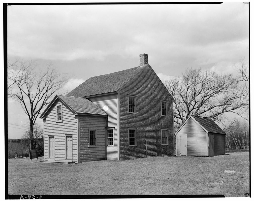 View of the exterior of the North Pembroke Society of Friends Meetinghouse, seen from the southeast. Schoosett Street (Routes 139 & 53) — North Pembroke, Plymouth County, Massachusetts. Image courtesy of federal HABS—Historic American Buildings Survey of Massachusetts project, The Library of Congress, Washington, D. C.